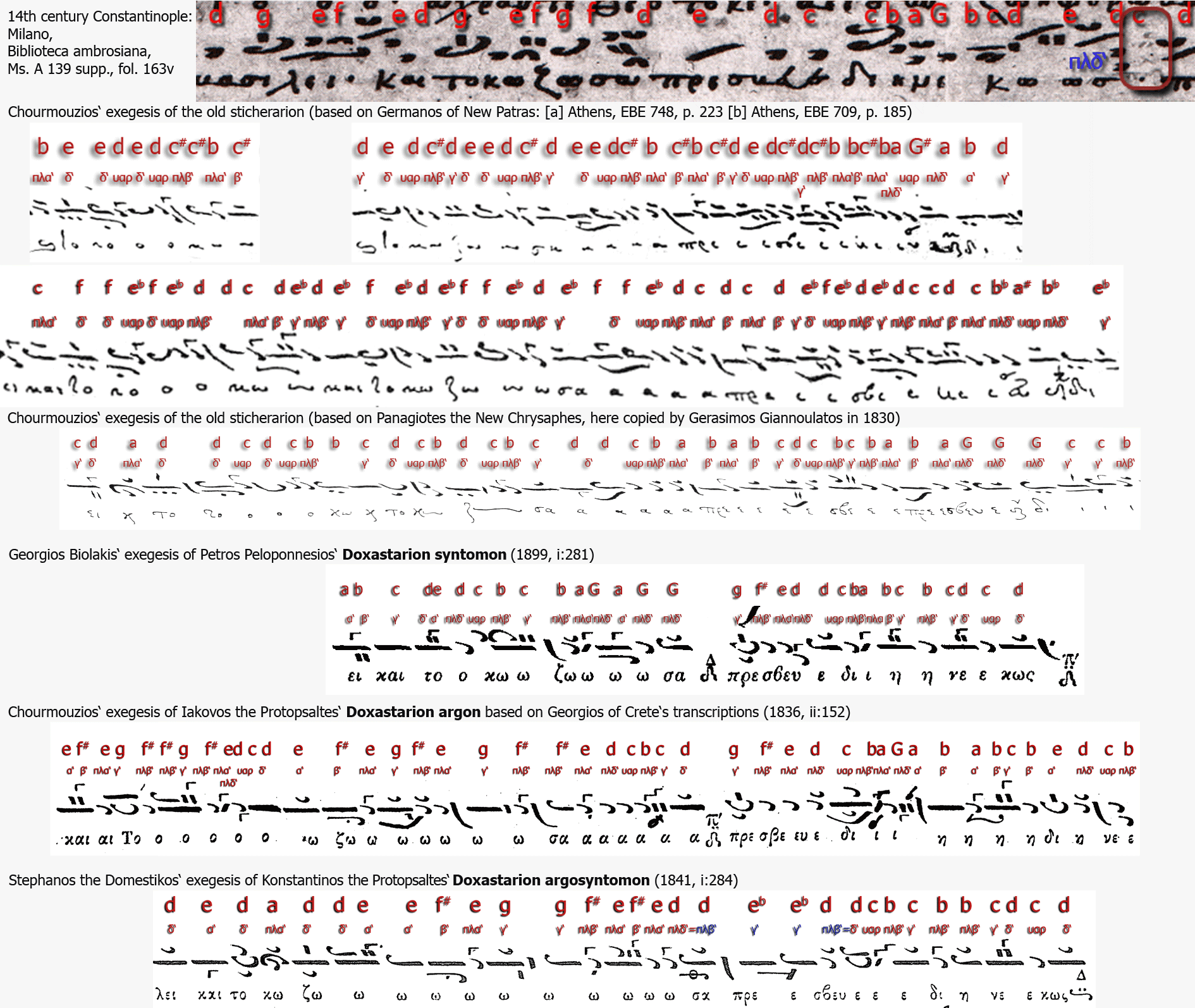 Various transcriptions (exegeseis) of the traditional sticheron (Doxastikon oktoechon) Θεαρχίῳ νεύματι .